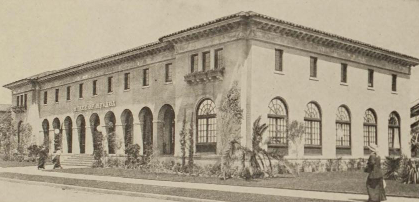 Nevada State Building during the 1915 Panama-California Exposition in Balboa Park, San Diego, California.